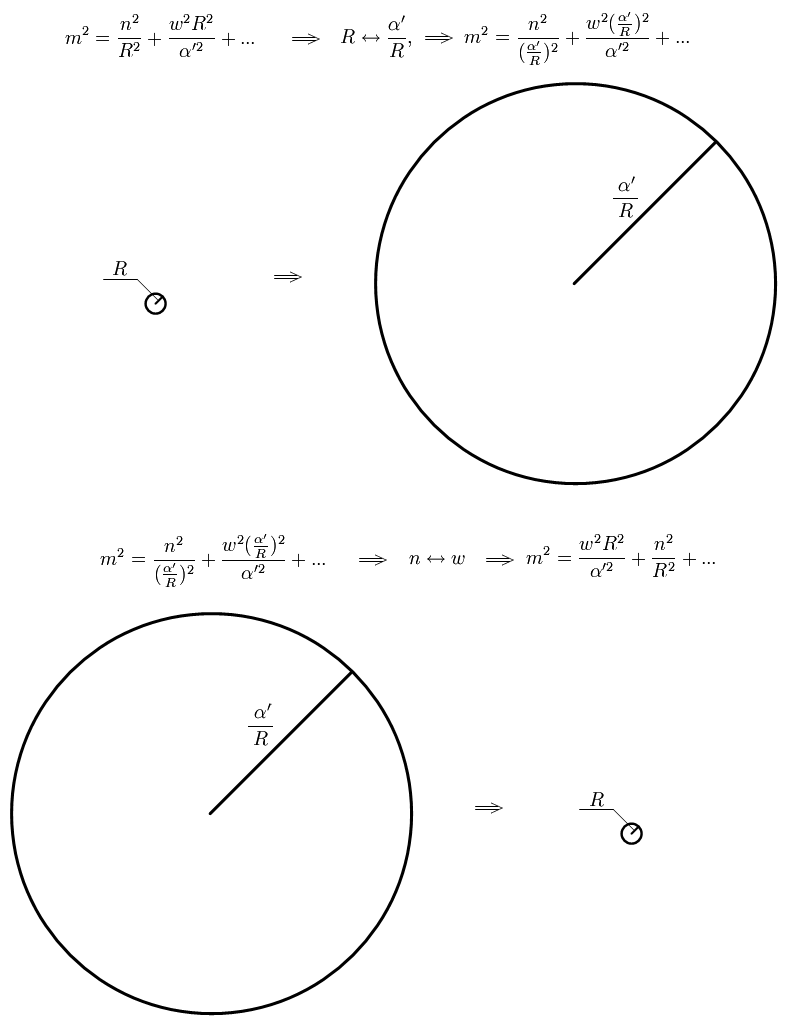 Simplified visualization of mathematics of strings T-duality.